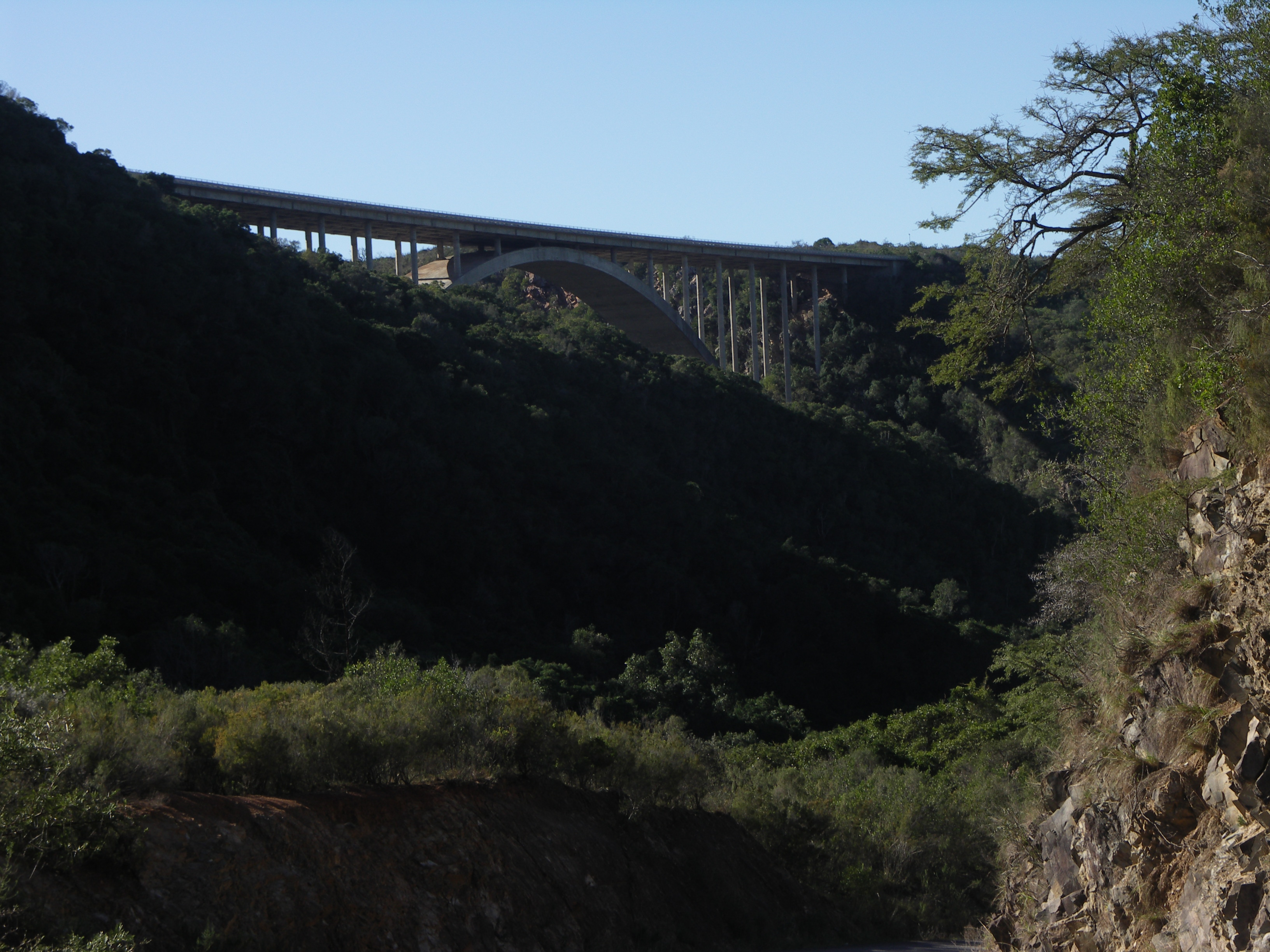 The N2 bridge over the Van Stadens River